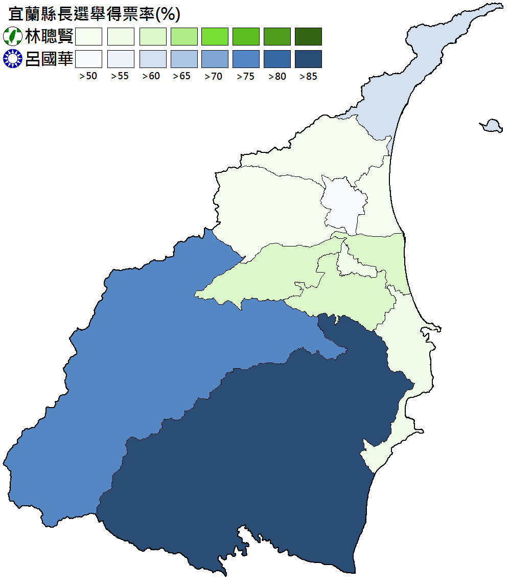 Yilan magistrate election 2009